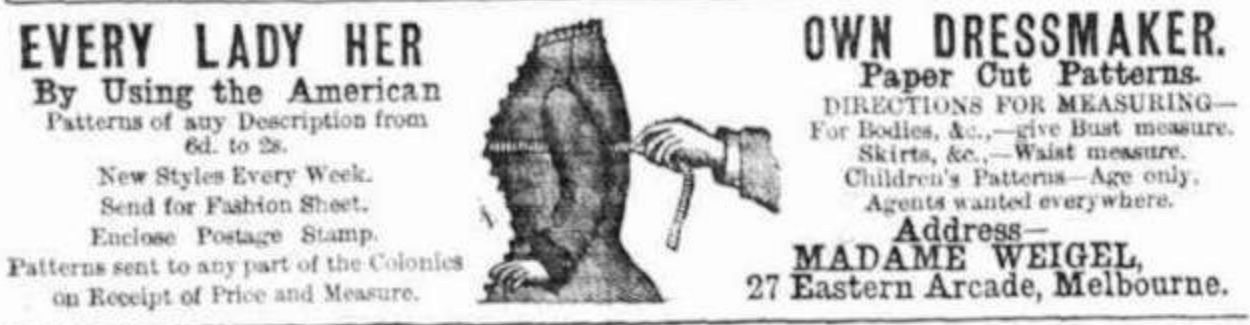 Advertisement for Madame Weigel first appeared in Melbourne 1878